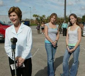 Jenna and Barbara Bush, the "Bush twins", behind Laura Bush, the First Lady of the United States.